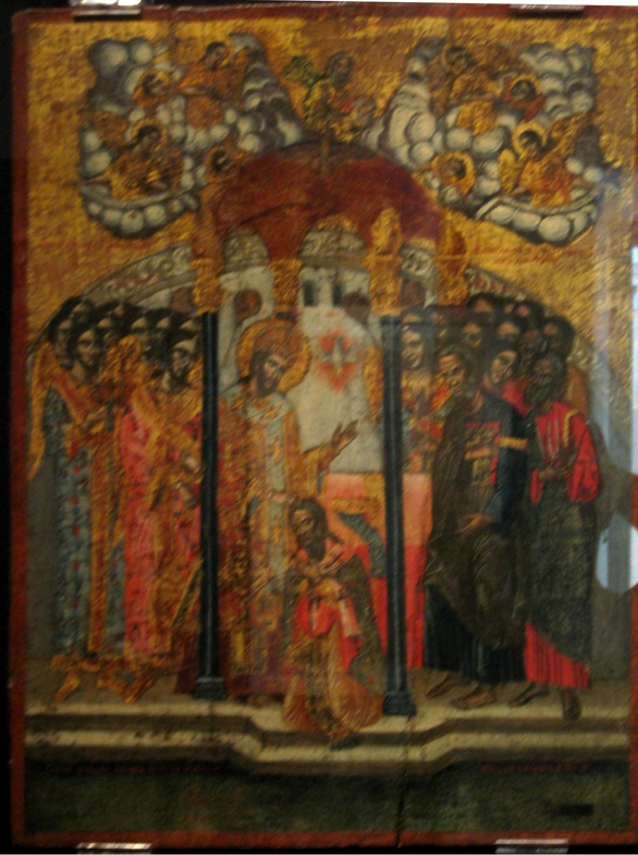 Georgios Perlineis. The consecration of S. James the Less as the bishop of Jerusalem. A.G.Makris collection